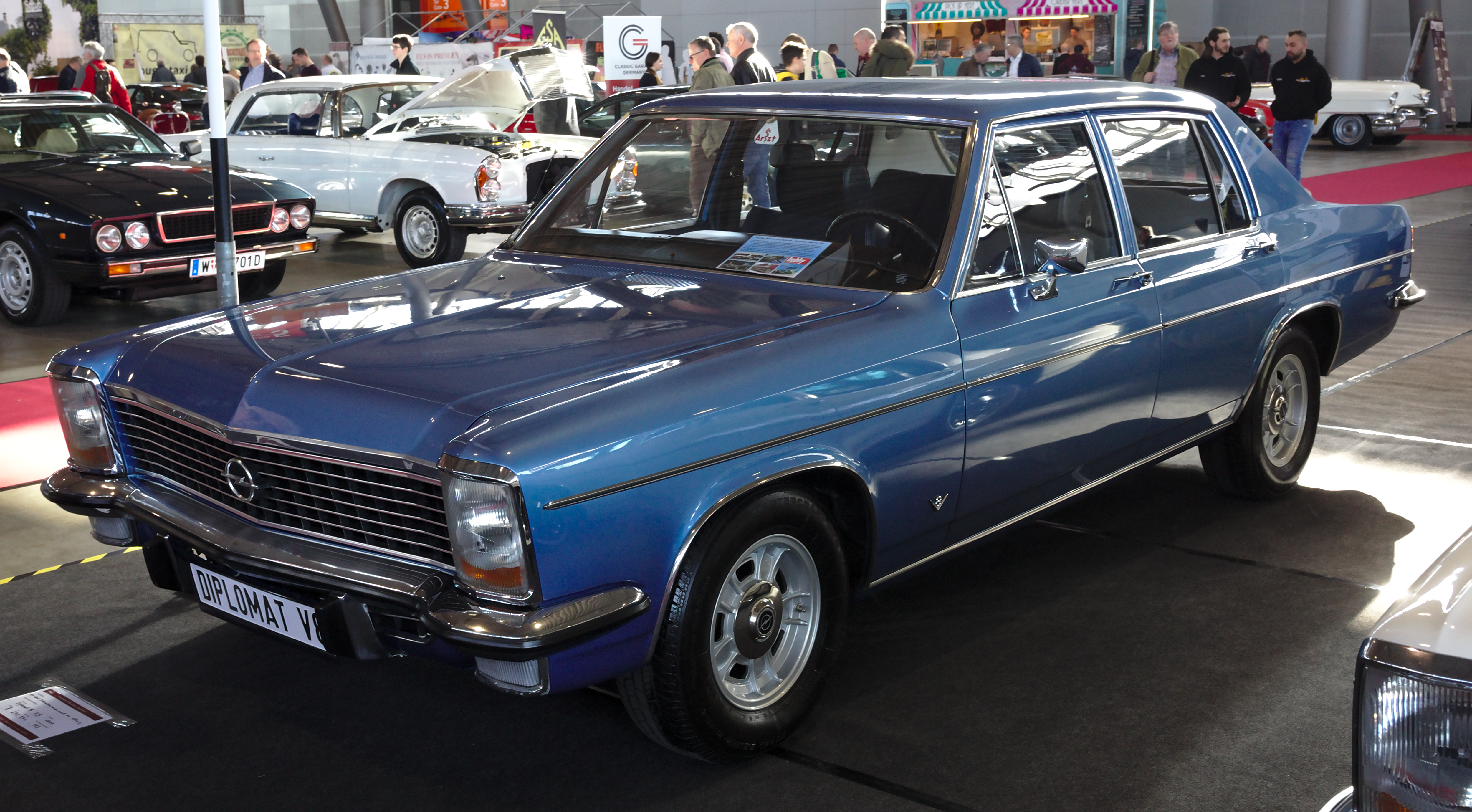 Opel Diplomat V8 at Retro Classics 2019